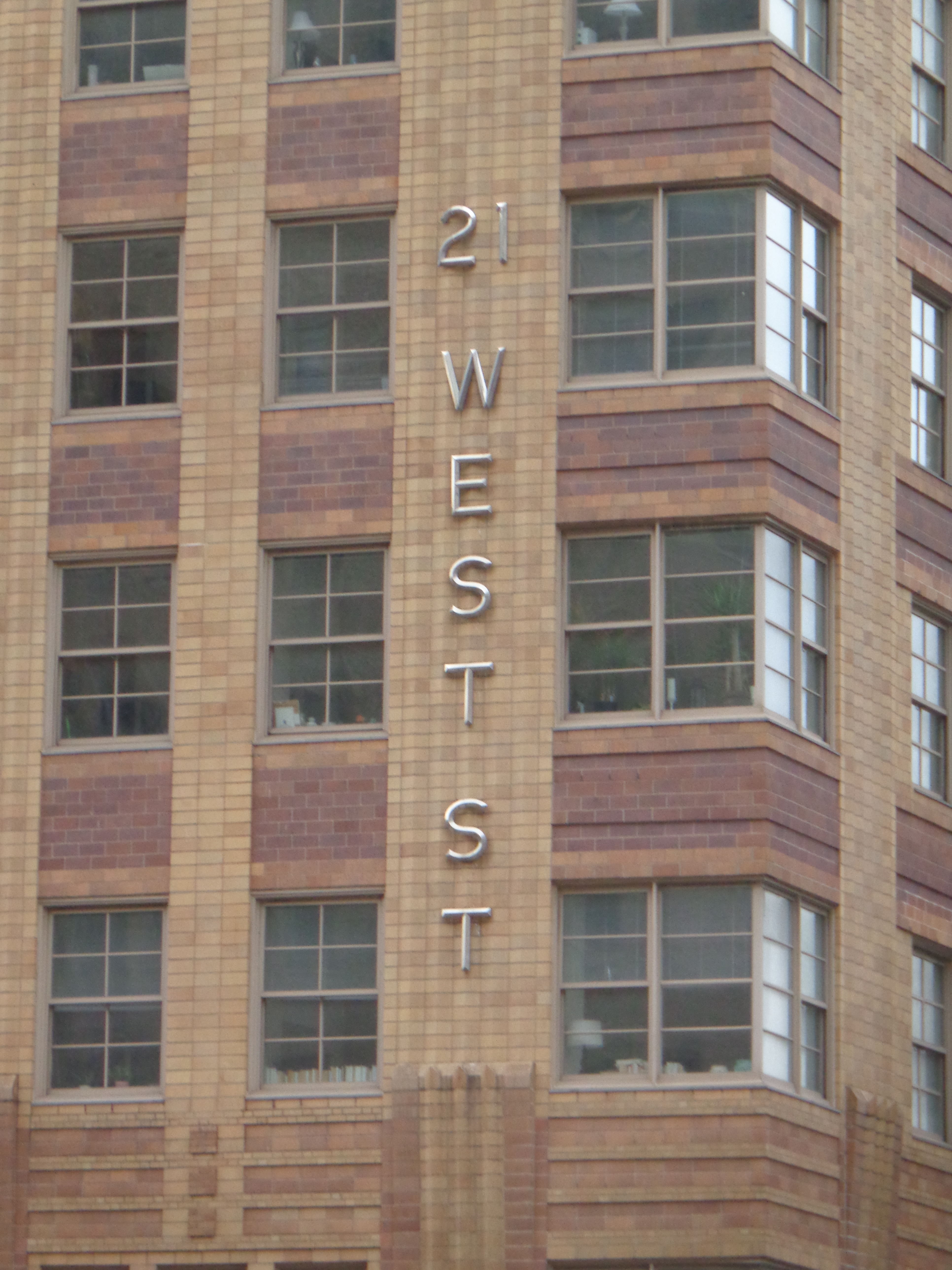 21 West Street, looking from the Trinity Place Greenstreet section of Elizabeth H. Berger Plaza, between Trinity Place and the Brooklyn-Battery Tunnel in the Financial District, Manhattan. Pictured is the vertical namebadge on the side of the building.